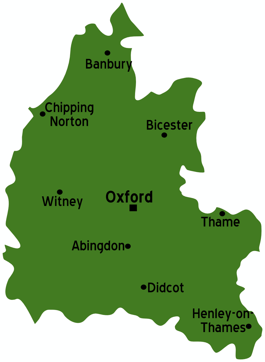 Map of Oxfordshire Source: :Image:UK map.svg map: United Kingdom Map of: United Kingdom